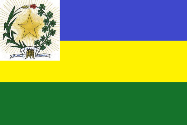 The flag from Grajaú